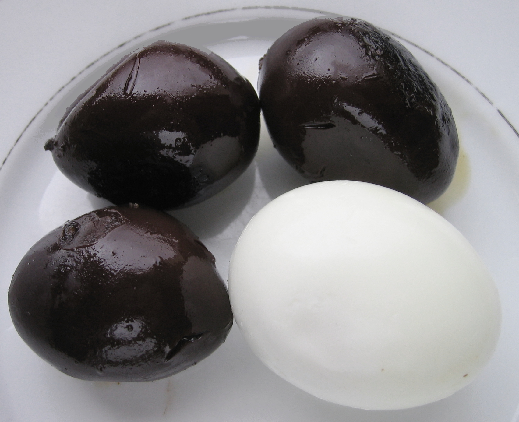 Iron Eggs clone compared to a 5 minutes coocked and peeled chicken egg